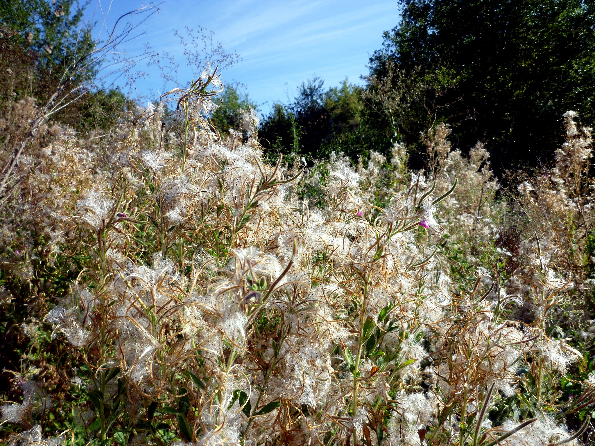 Epilobium hirsutum. In Torà (Segarra- Catalunya). On 570 m. altitude